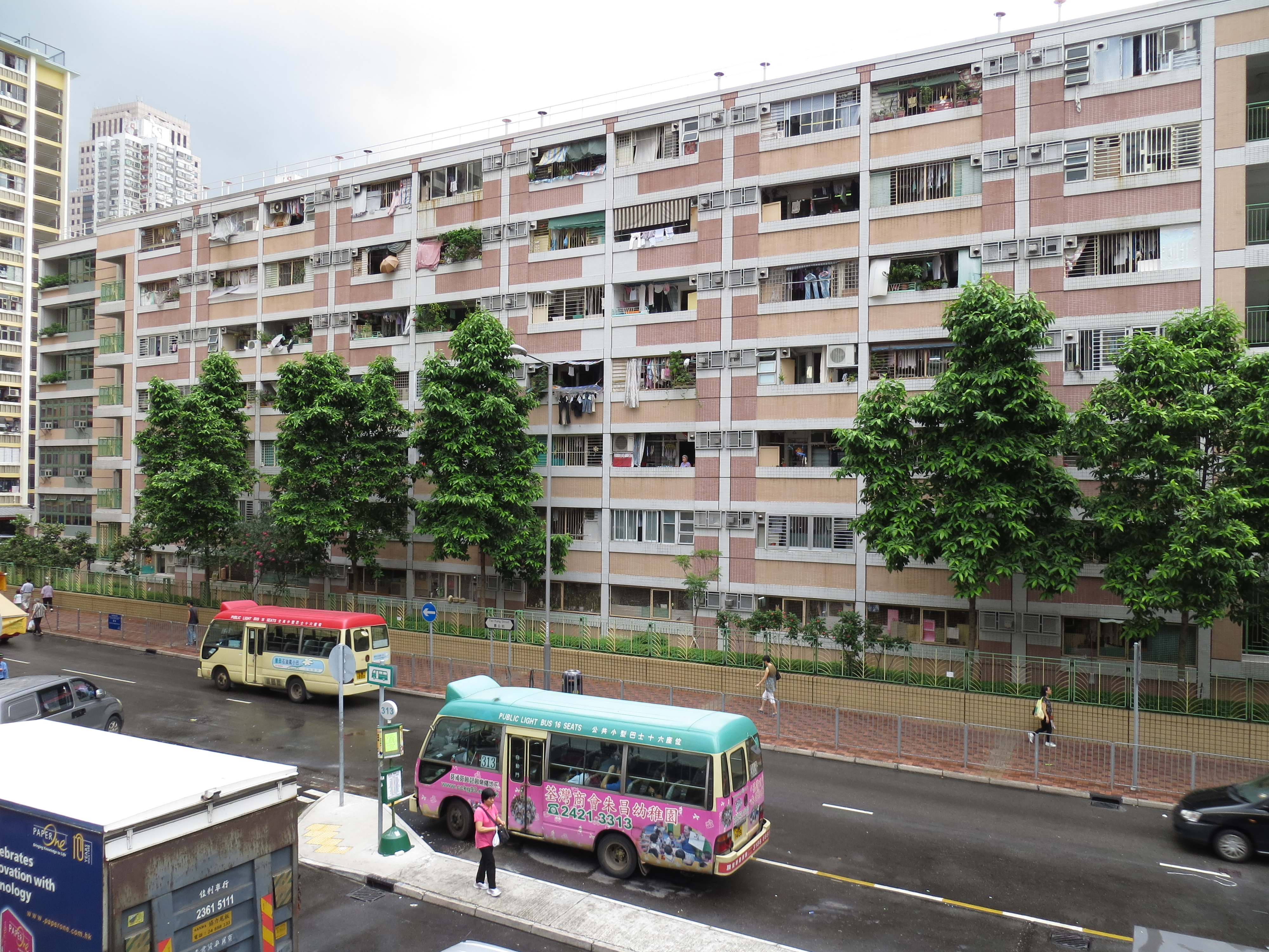 Tso Kung Street, Tsuen Wan, New Territories, Hong Kong. Moon Lok Dai Ha is at the back.